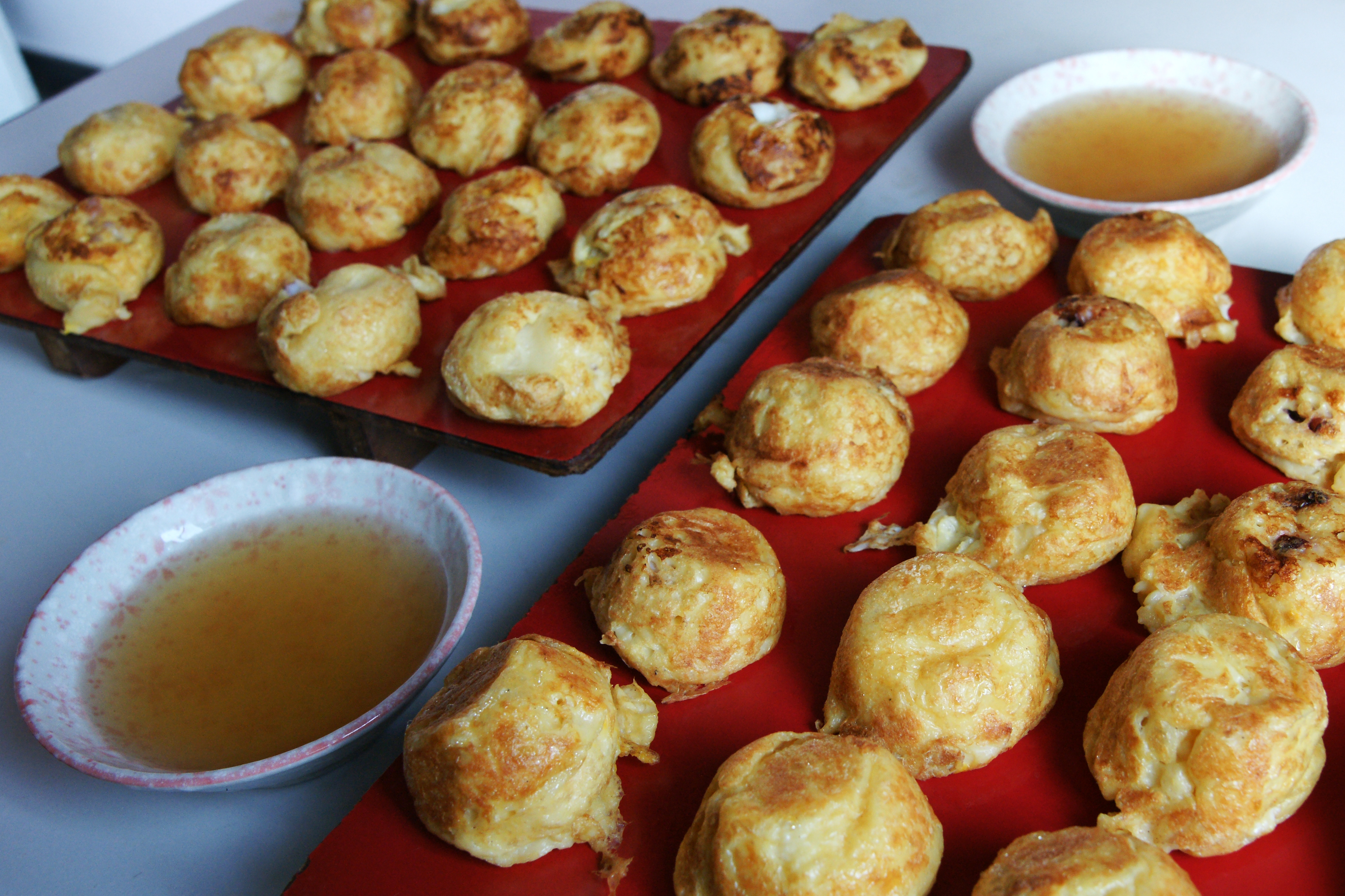 Akashiyaki at Akashi, Hyogo prefecture, Japan